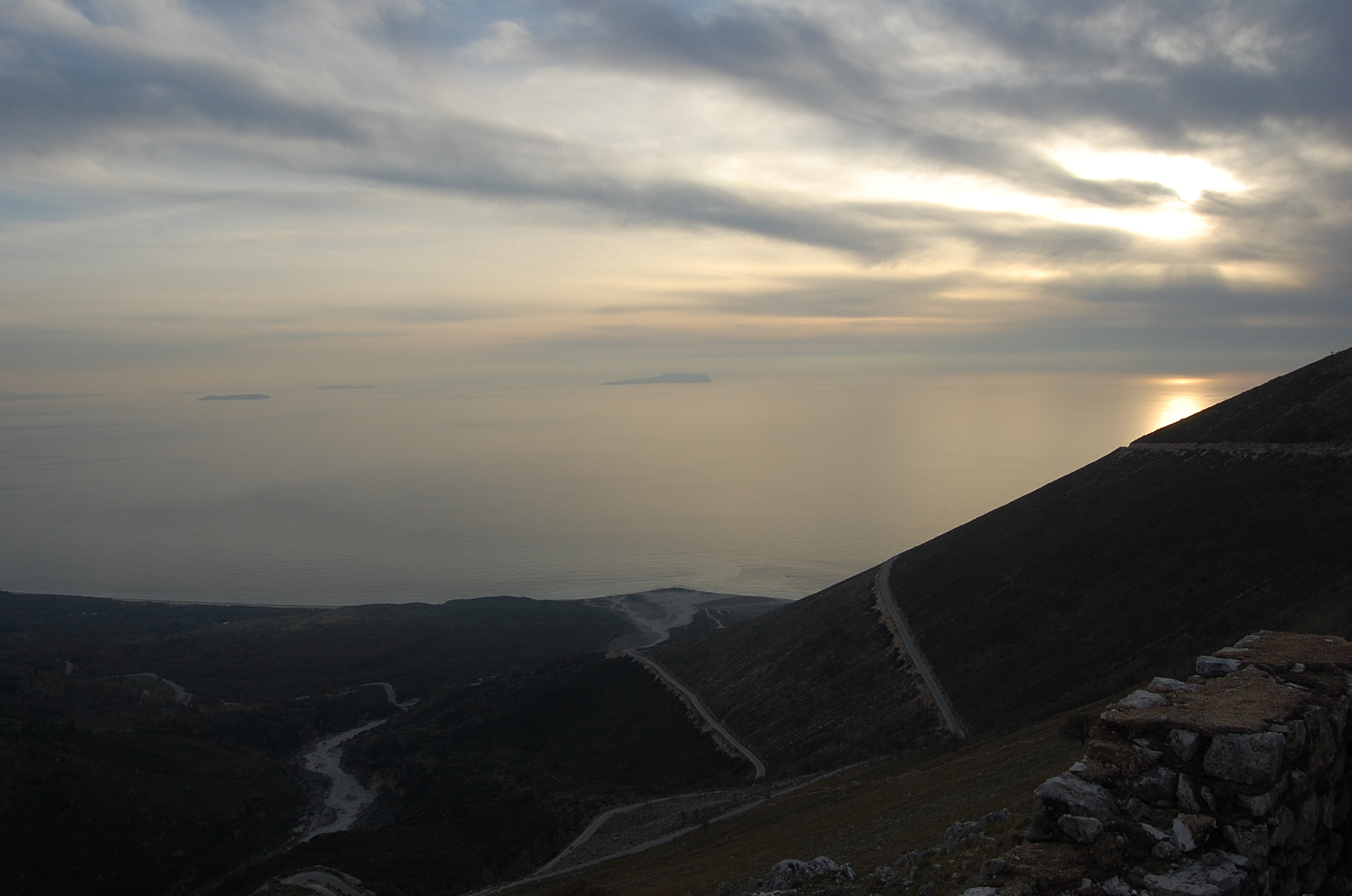 Panorama from Llogara pass in Southern Albania. Small Greek islands of Othoni (right), Mathraki (center) and Erikoussa (left)